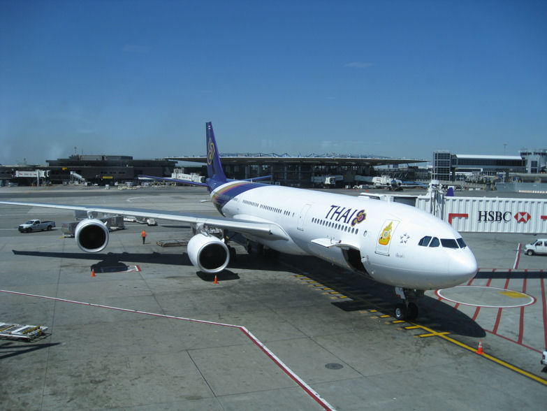 At the height of the latest fuel price rises, Thai Airways withdrew its New York Express non-stop 17'30" flight from New York's JFK to Bangkok. This picture was taken of one of the five A340-500 ultra-long range aircraft that ran the service at JFK New York just a few days before it ended. A great shame because this was a very fine service. Superb aircraft, beautifully equipped and with exemplary service from Thai's very best crews.